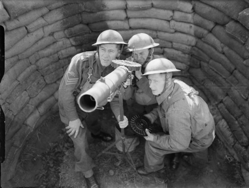 The British Army in the United Kingdom 1939-45 Gunners of 'G' Battery (Mercer's Troop), Royal Horse Artillery, man a Lewis gun in a sandbagged revetment, 29 October 1940.